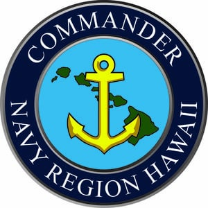 Insignia/logo/emblem of Commander, Navy Region Hawaii